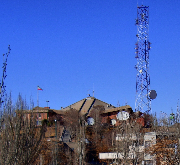 Islamic Republic of Iran Broadcasting provincial building in Tabriz, Iran.